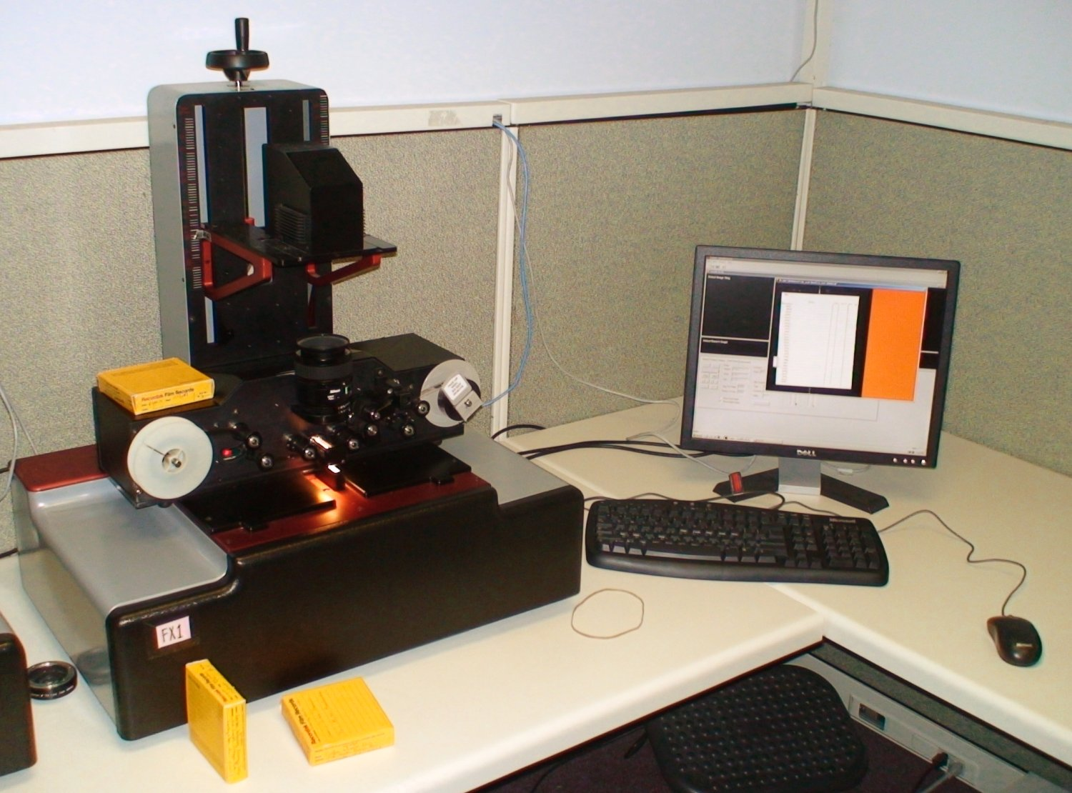 Scanning a roll of microfilm